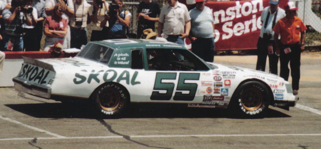 The Johnny Hayes Skoal Buick of Benny Parsons had a good run in the 1983 Van Scoy 500, finishing 5th.Benny Parsons #55